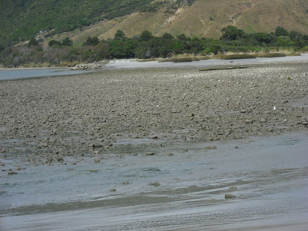 Dairy discharge creating water pollution